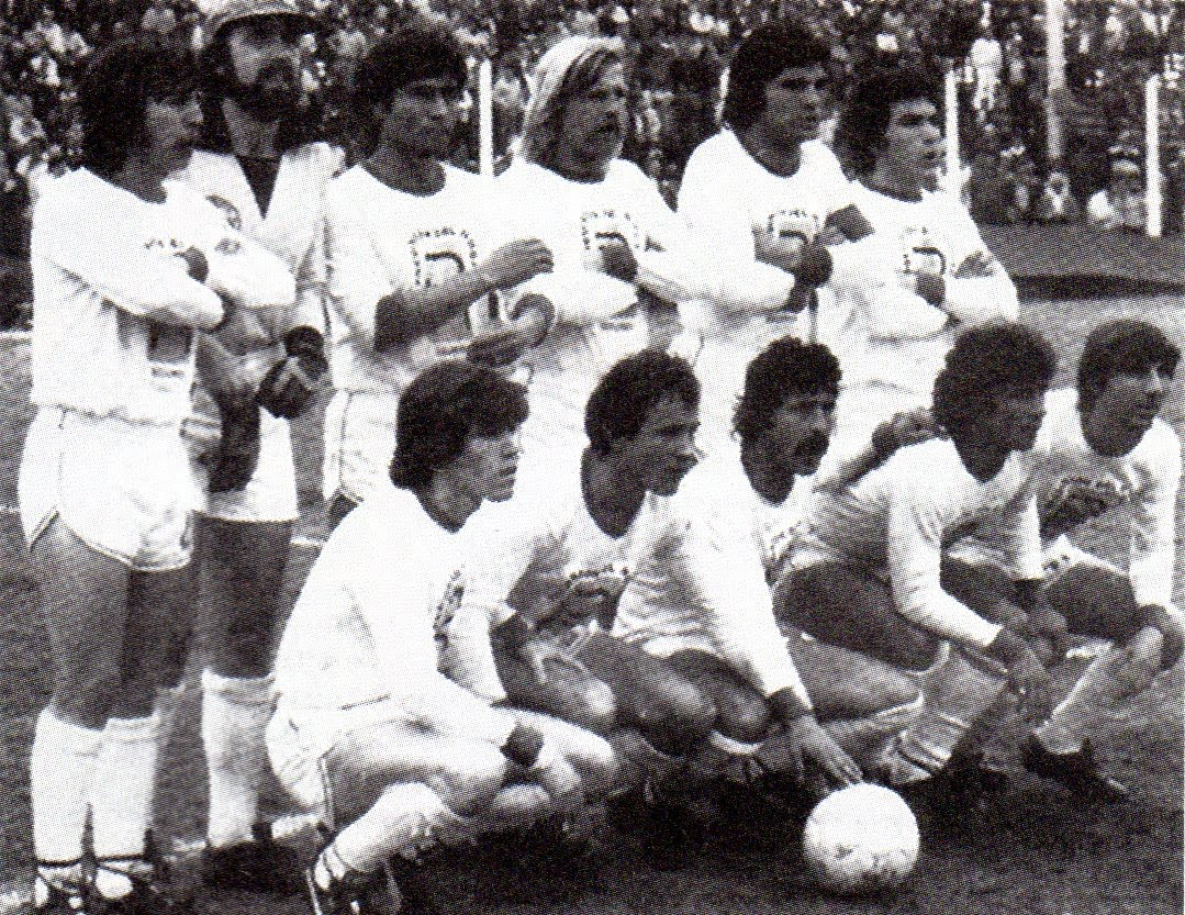 The Deportivo Morón team that achieved the 1980 championship.